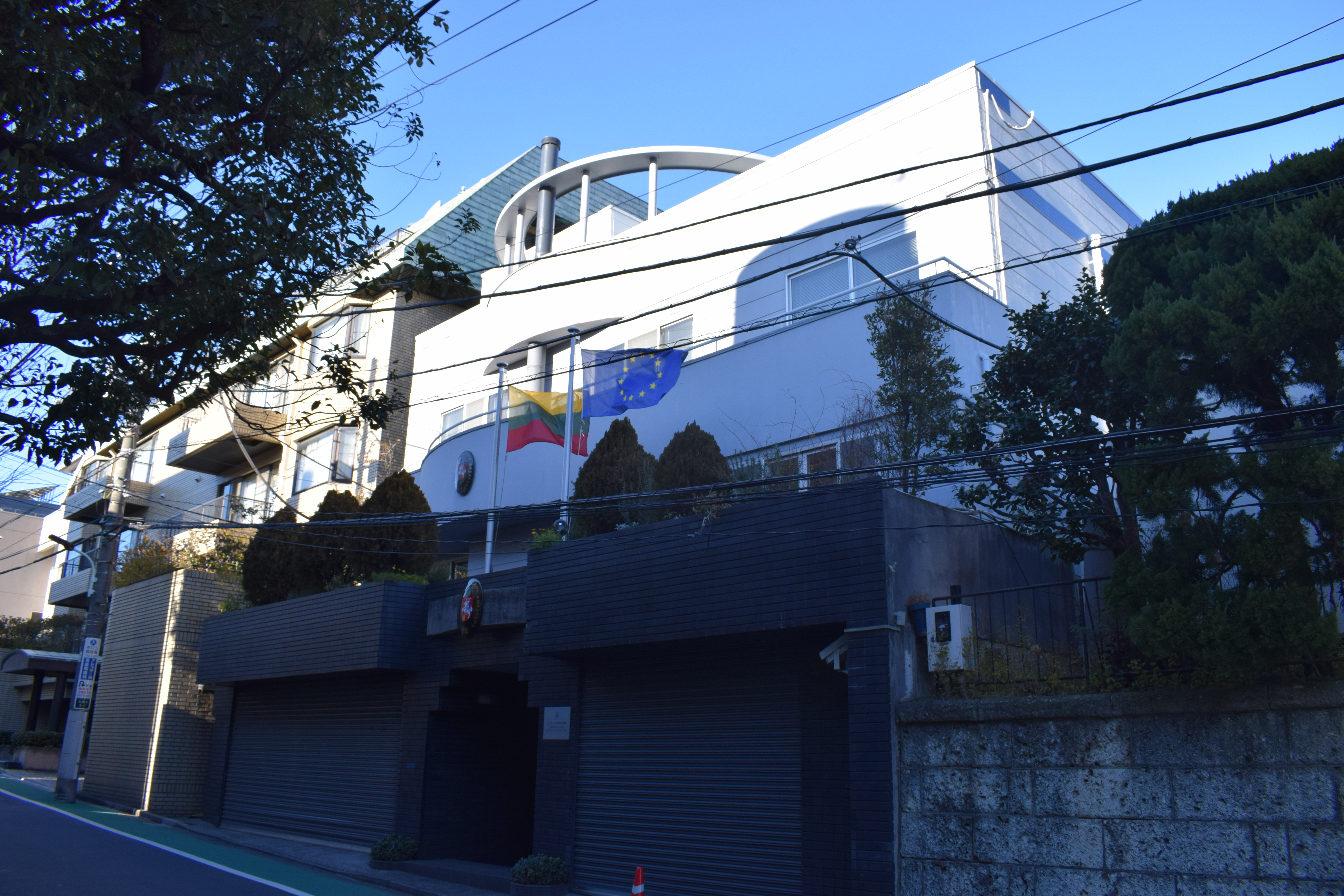 Embassy of the Republic of Lithuania in Japan